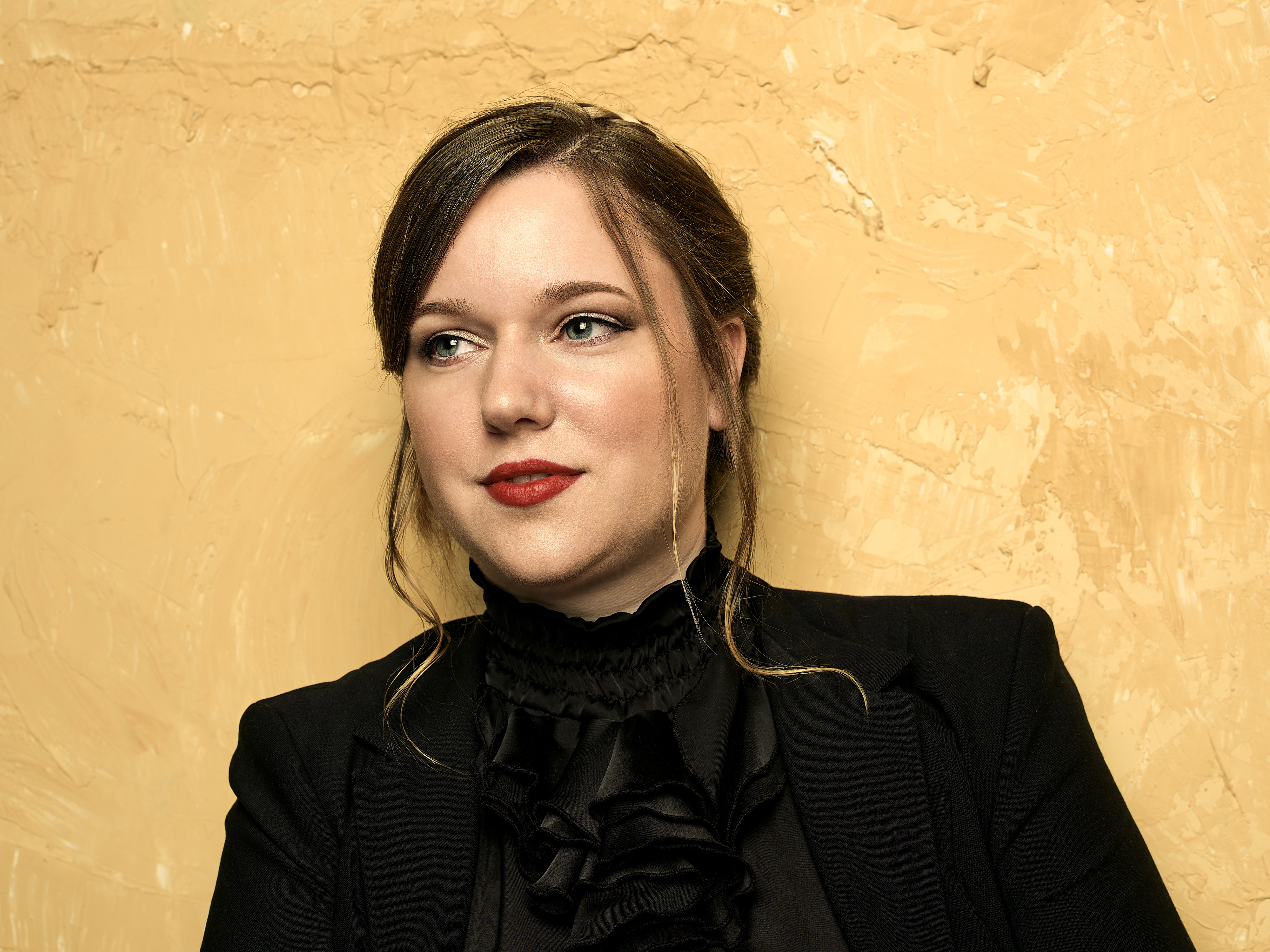 Portrait of Anne-Kathrin Dern, 2017 by Dillon Padgette